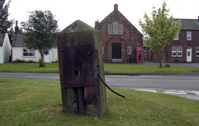 Kirkton water pump The old village water pump at Kirkton.